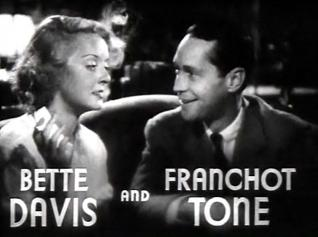 Cropped screenshot of Bette Davis and Franchot Tone from the trailer for the film Dangerous.